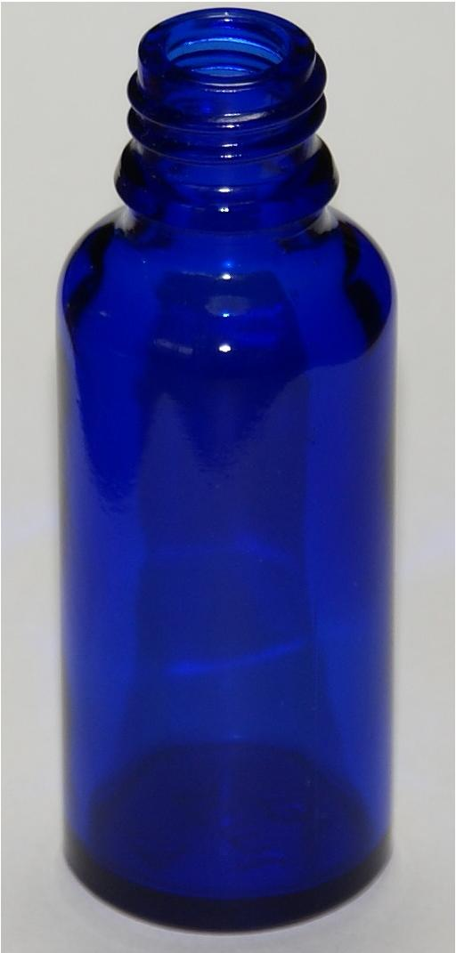 Flask made of cobalt glass. Glass is stained with cobalt blue for decoration and to protect light sensitive liquids.